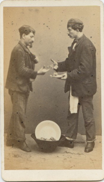 Carlo Ponti (ca. 1833-1895) - "Street vendor".